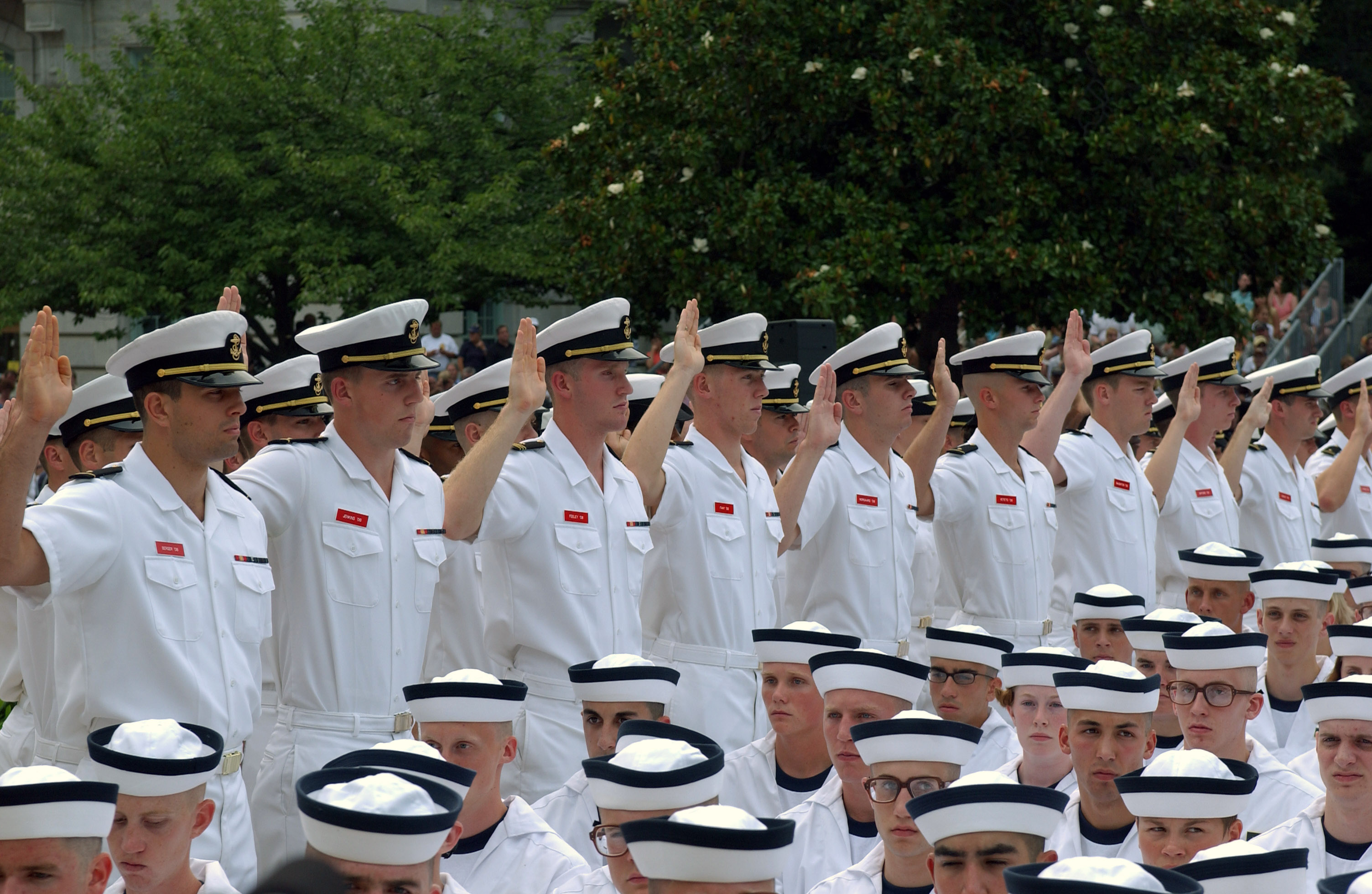 ANNAPOLIS, Md. (June 27, 2007) - Upper-class midshipmen from the U.S. Naval Academy recite the “Oath of Leadership” on Induction Day for the Class of 2011. More than 1,200 “plebes,” or freshmen, reported to the academy to begin Plebe Summer, six weeks of intensive indoctrination into military and academy life. The upper-class, also known as the “cadre,” lead the plebes through basic seamanship, navigation and damage control training, infantry drill exercises, and rigorous physical conditioning to prepare them for four years at the Naval Academy. U.S. Navy photo by Mass Communication Specialist Seaman Michael Croft (RELEASED)